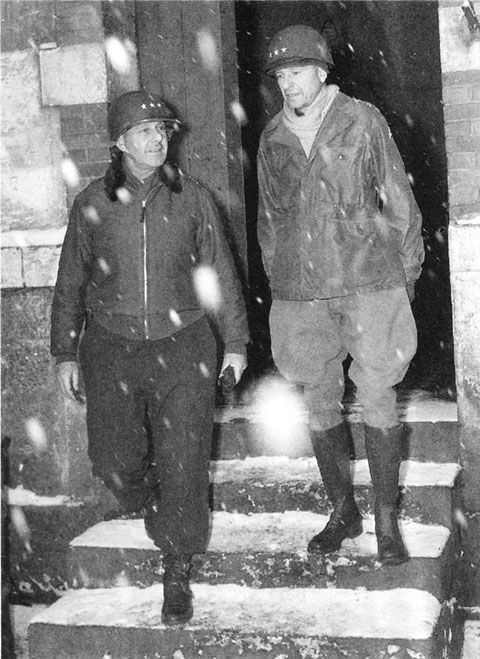 Generals Devers and Patch at Luneville